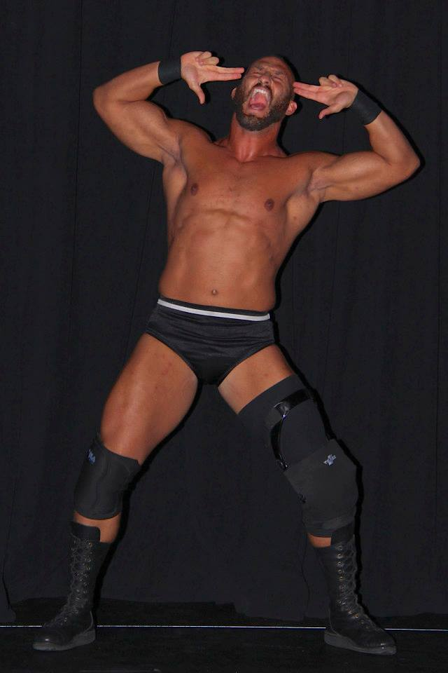 Tommaso Ciampa at a Ring of Honor show in Toronto, ON